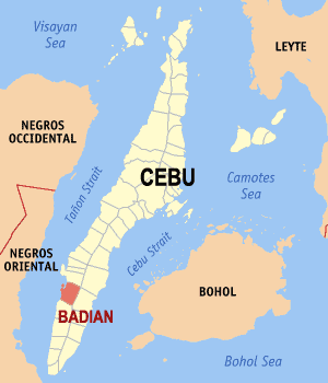 Map of Cebu showing the location of Badian